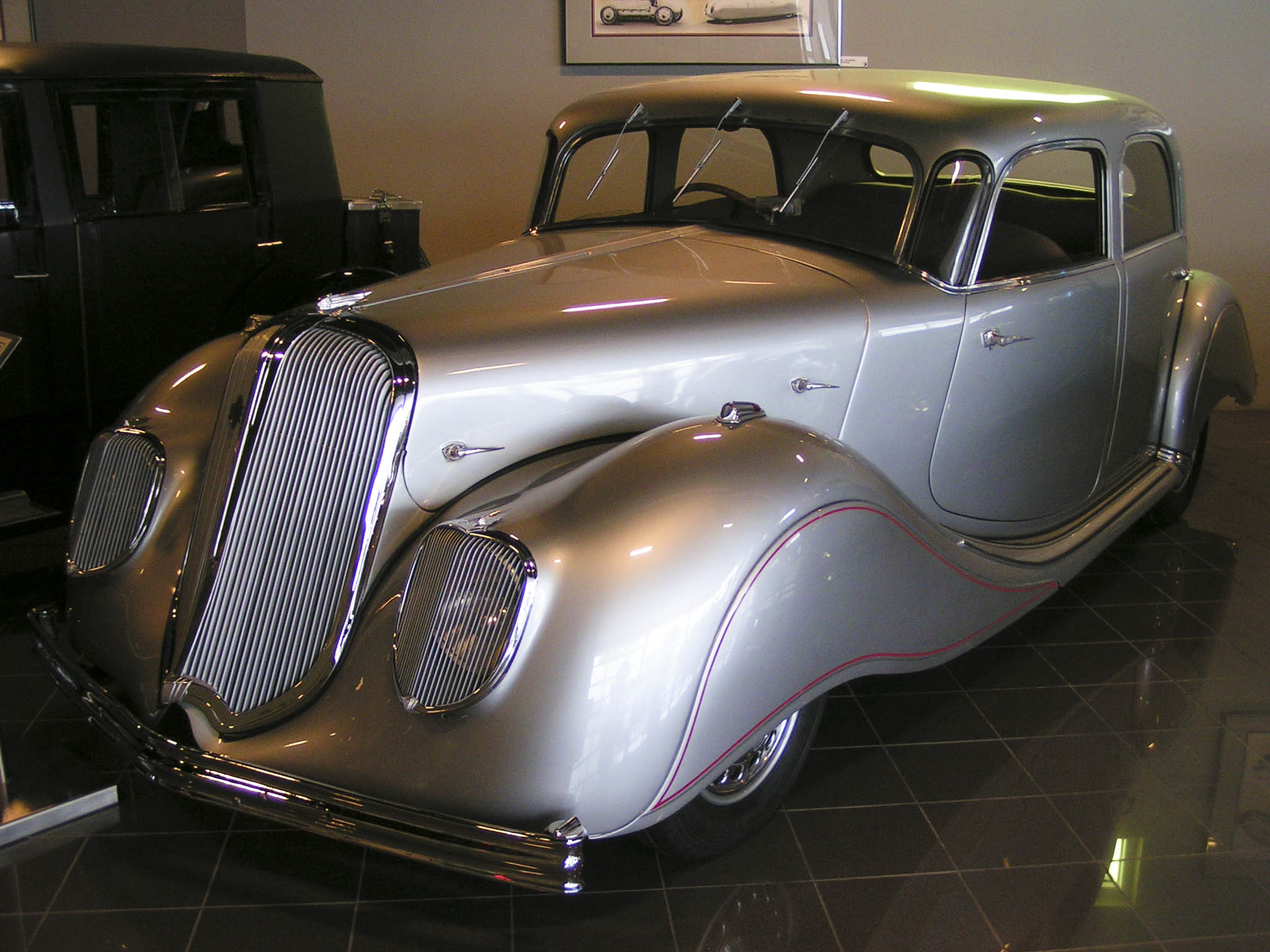 1938 Panhard Dynamic A rwd car with independent front suspension. Sleeve valve 2861cc six cylinder engine, center steering, and Three-piece "Panoramique" windshield. This is not a custom-built automobile.1938 Panhard Dymanic